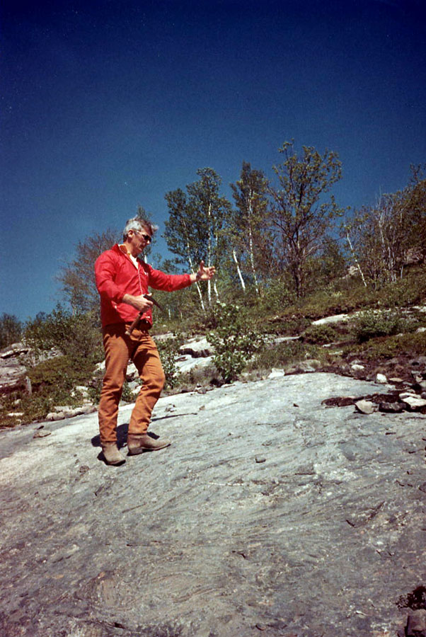 Apollo 17 commander Eugene Cernan participates in field geology training in Sudbury, Canada, 24-25 May 1972.